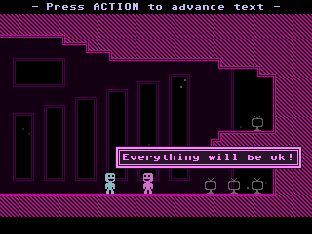 VVVVVV screenshot. Released in 2010, the game was developed by Terry Cavanagh.